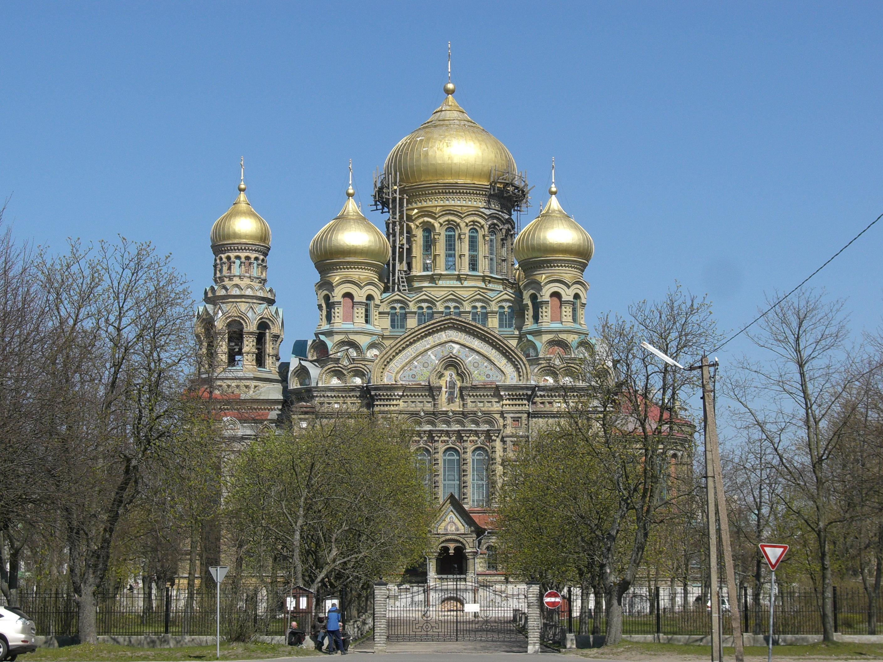 Church in the Karosta in north direction from Liepāja town, Latvia.